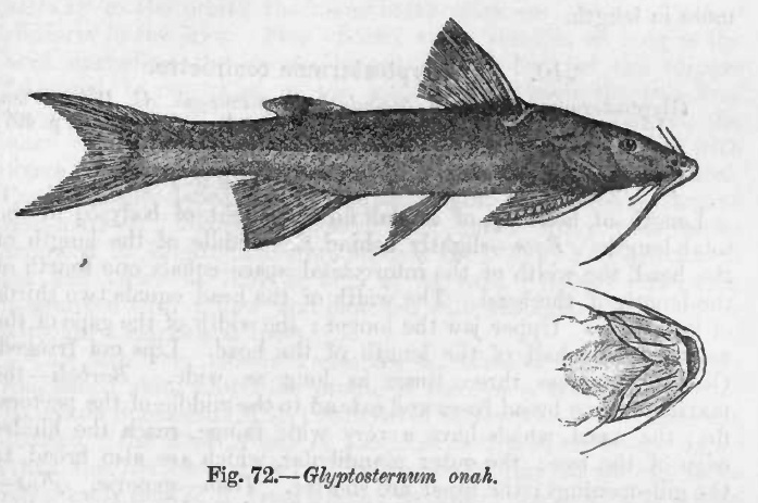 Glyptosternum onah [sic] = Glyptothorax lonah (Sykes, 1839)